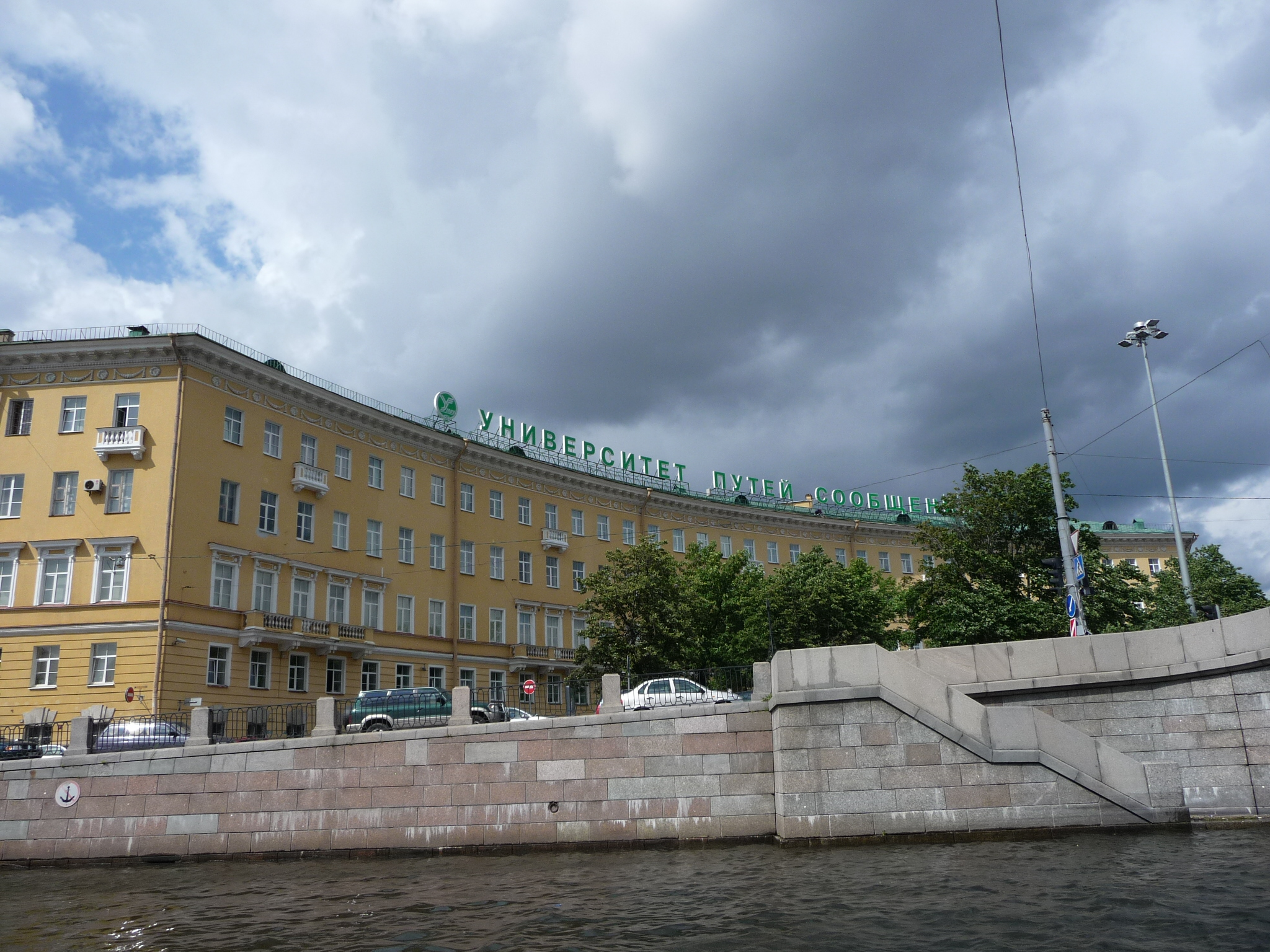 Petersburg State University of Means of Communication building (one from) in St Petersburg, Russia